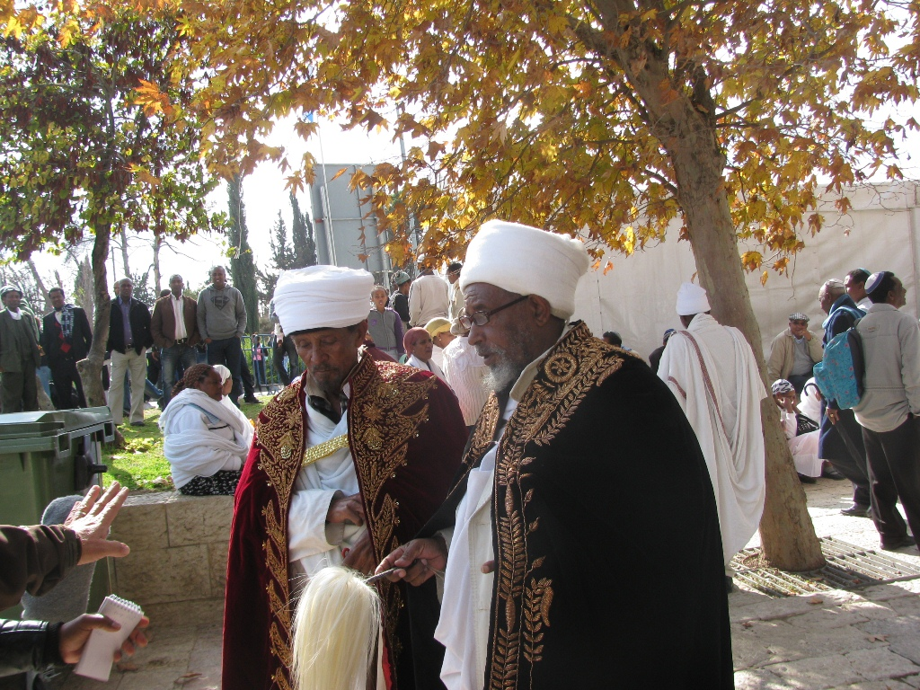 Ethiopian community all over the country at the joint in Jerusalem